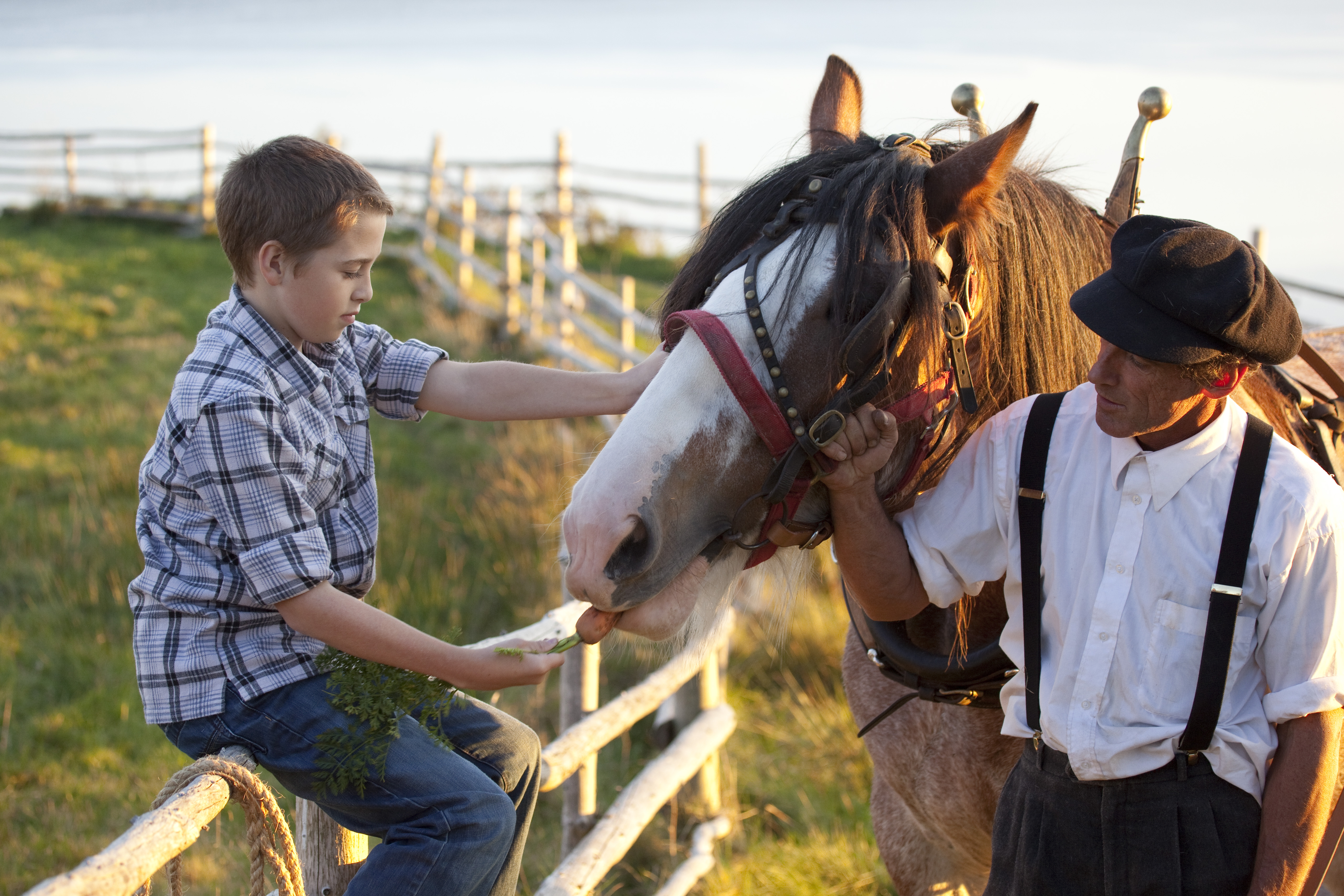 One of the many experiences available to visitors of the Highland Village Museum in Iona, Nova Scotia.